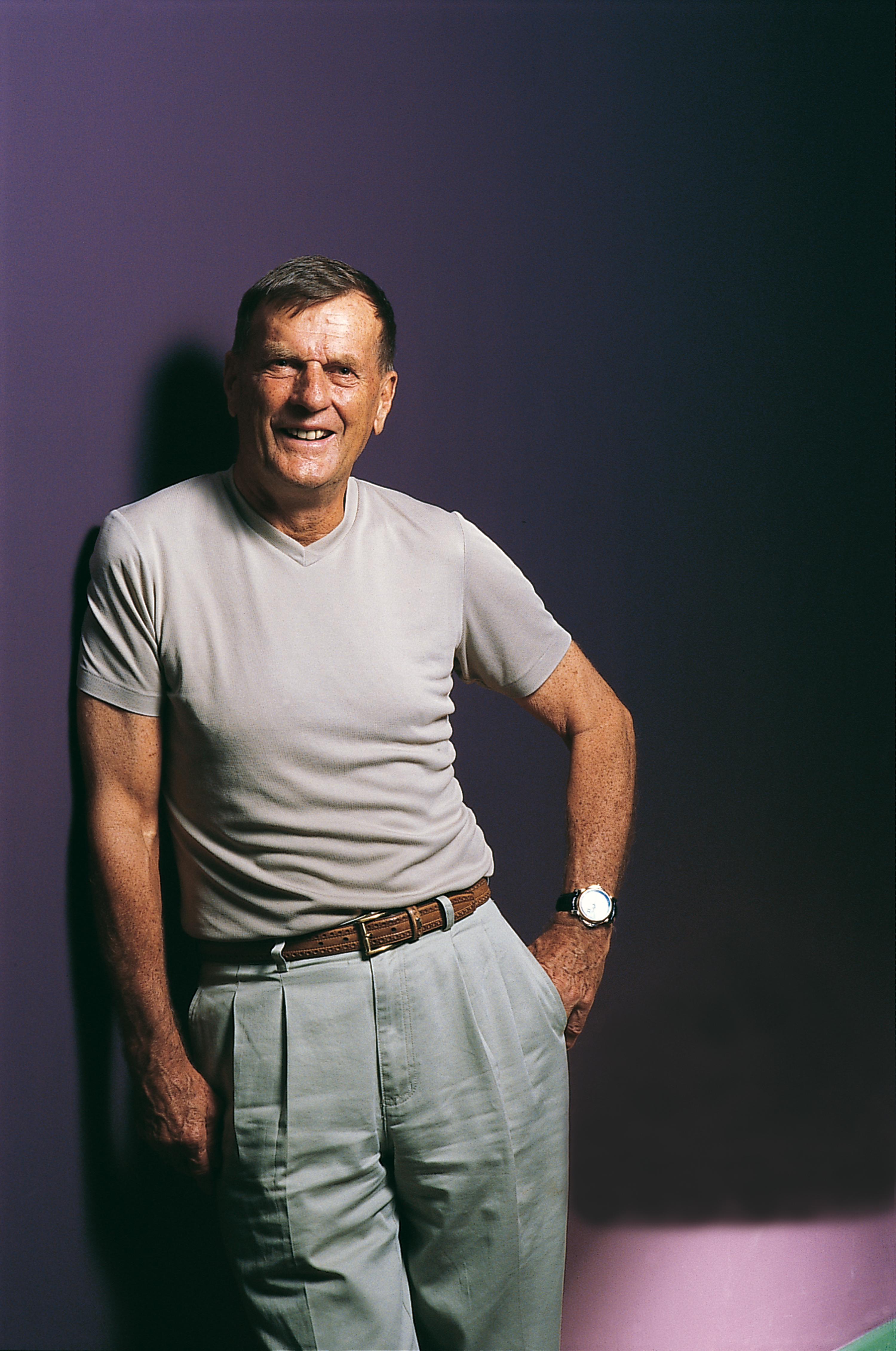 Rolf Schnyder